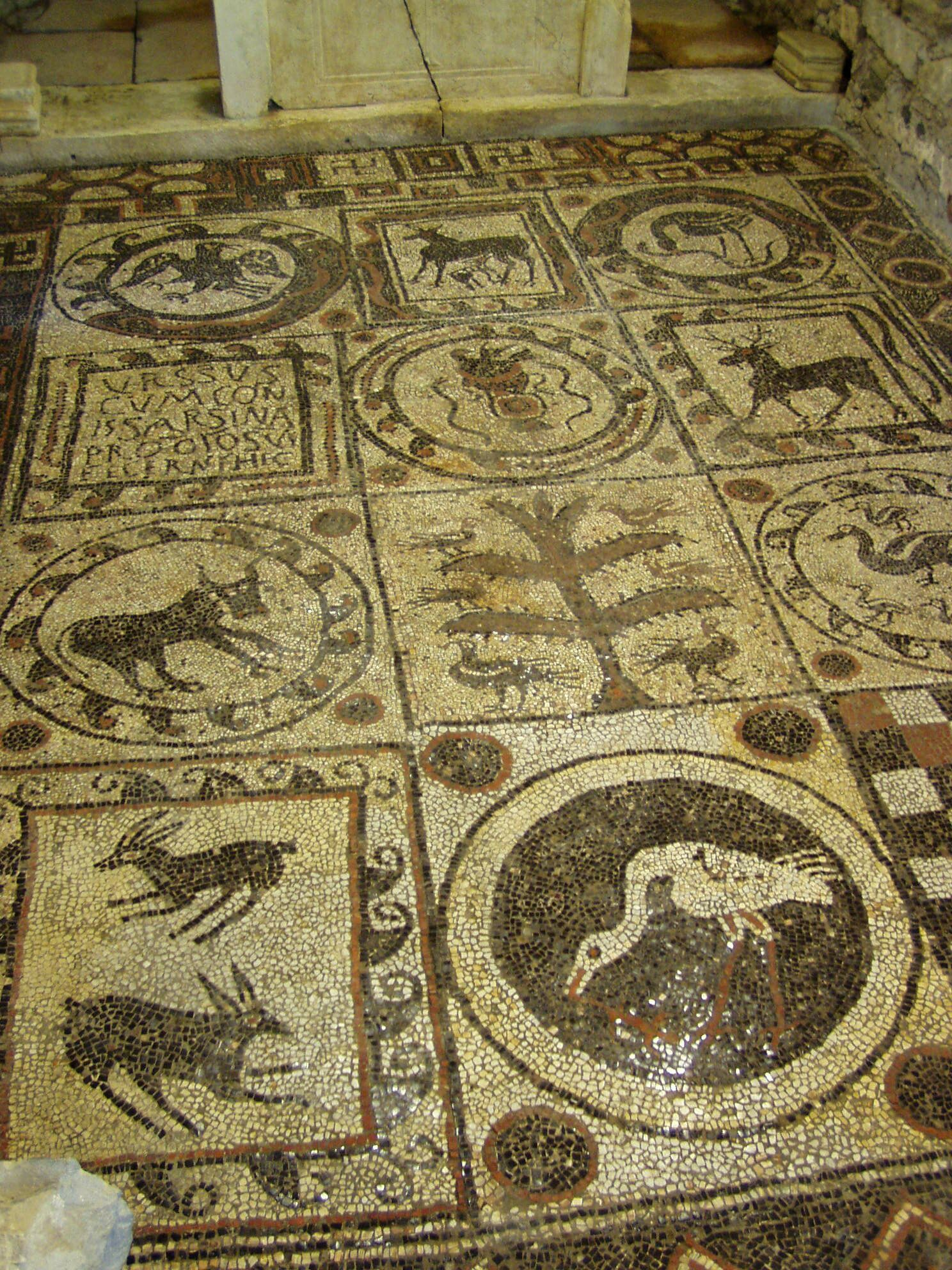 Teurnia, Carinthia, Austria: Mosaic of late Roman Baptist Church.